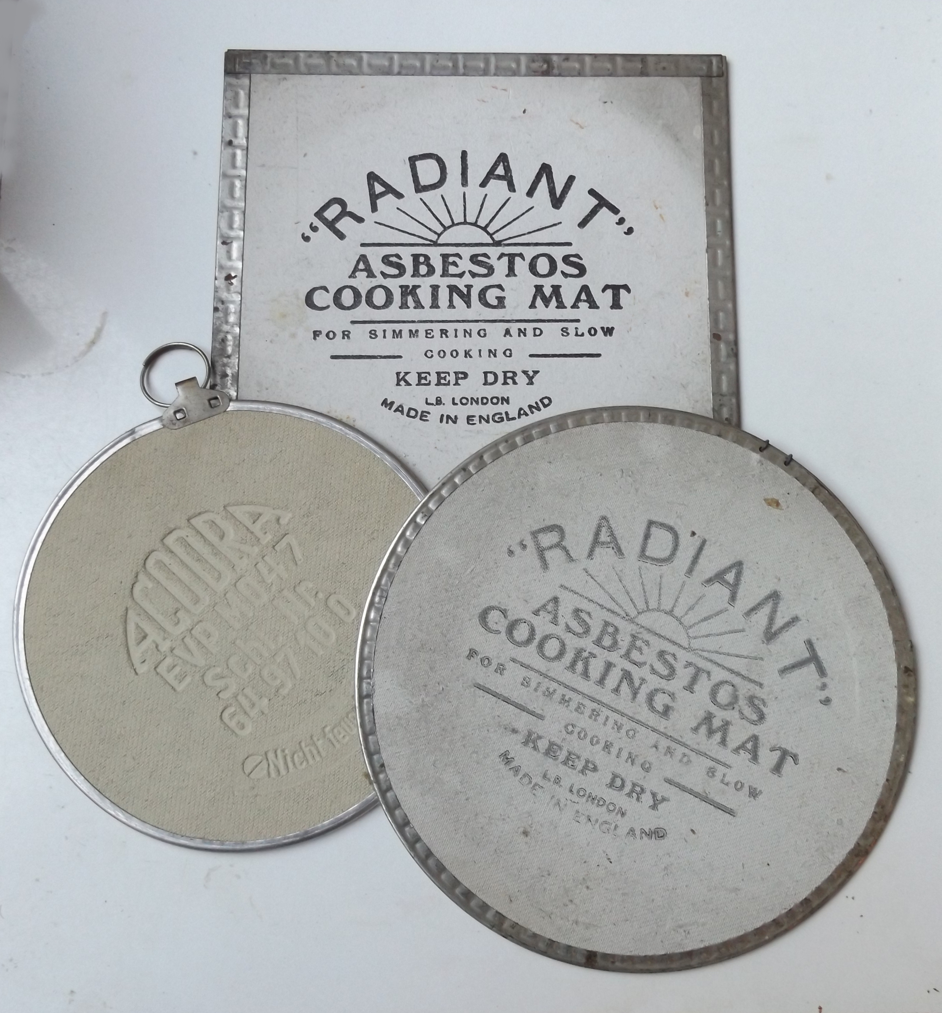 Kitchen cooking mats (heat spreaders) made from asbestos, Products of England and Germany, 1960s years